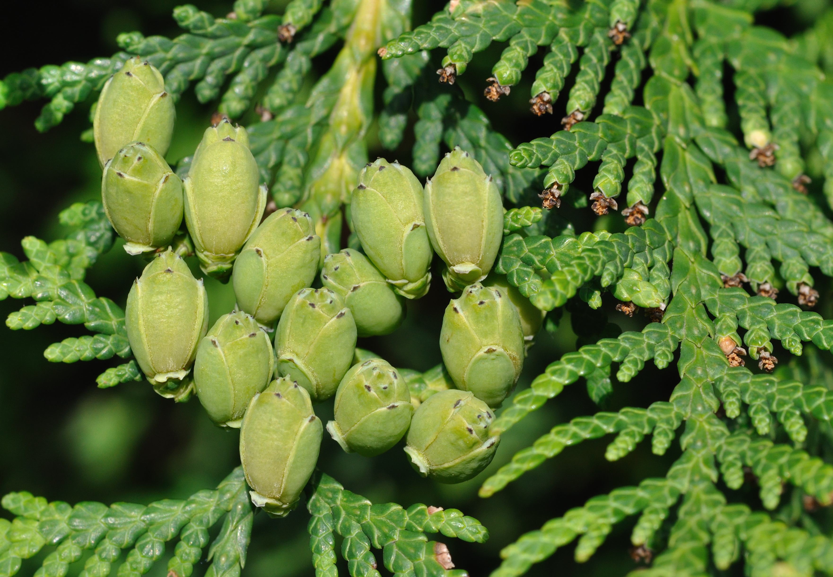 Unripe female (left) and male (right) cones of a Tree of Life (Thuja occidentalis) in Hamm, Germany.